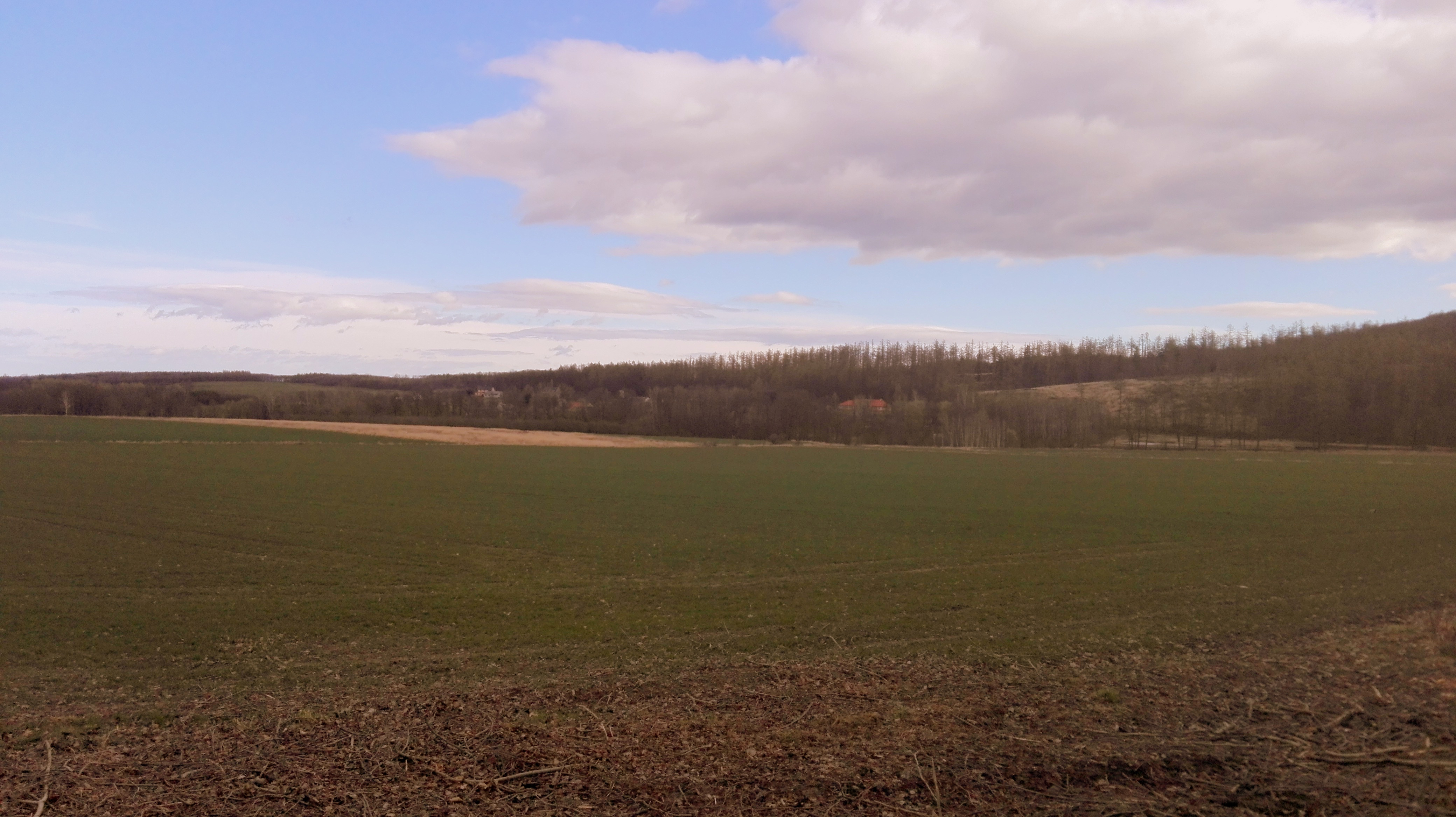 Wieszczyna, Poland